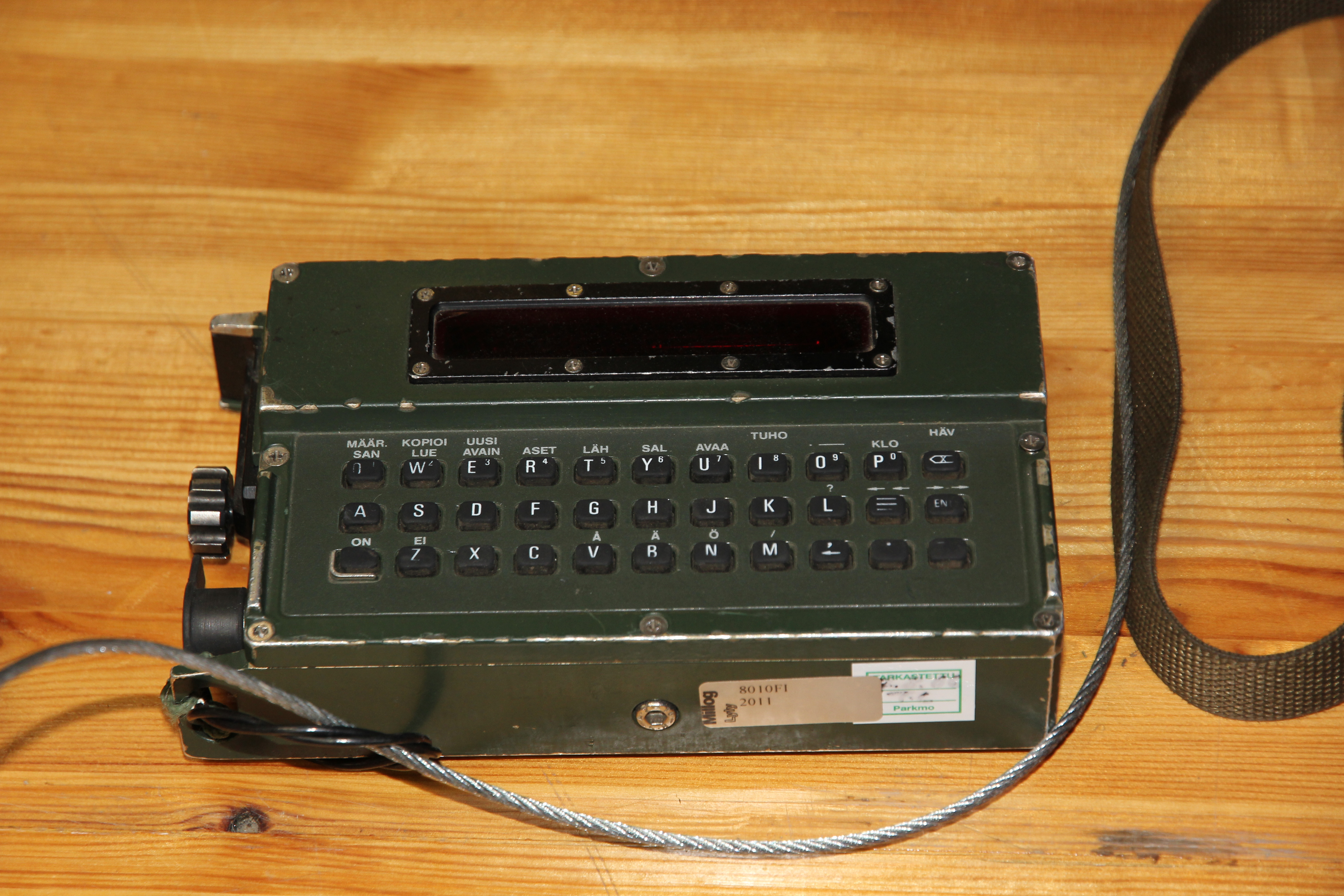 Small partiosanomalaite Parsa digital messaging system on display during Finnish Defence Forces 2013 Flag day in Ekenäs harbour.